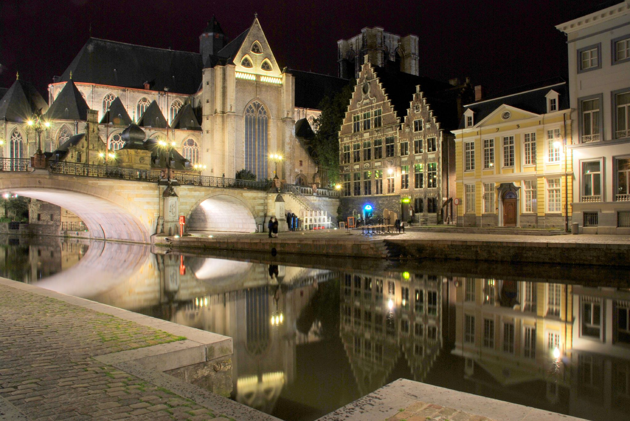 Ghent river (Lys), night scene, 2007